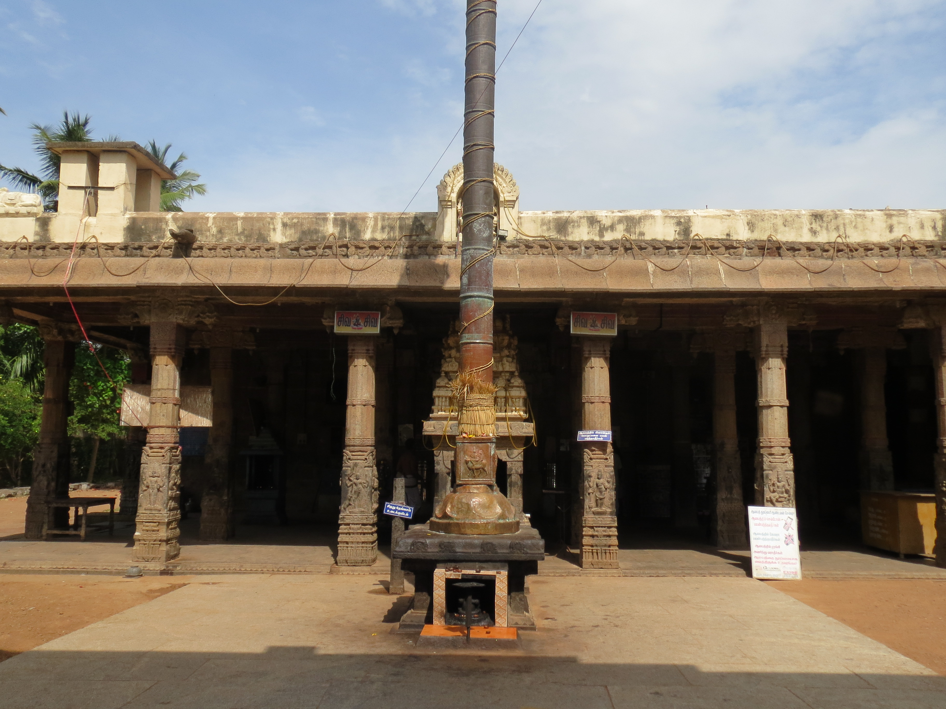 Kodimaram and munmandapam at Thenupureeswarar koil, Madambakkam, Chennai (Tamil nadu)